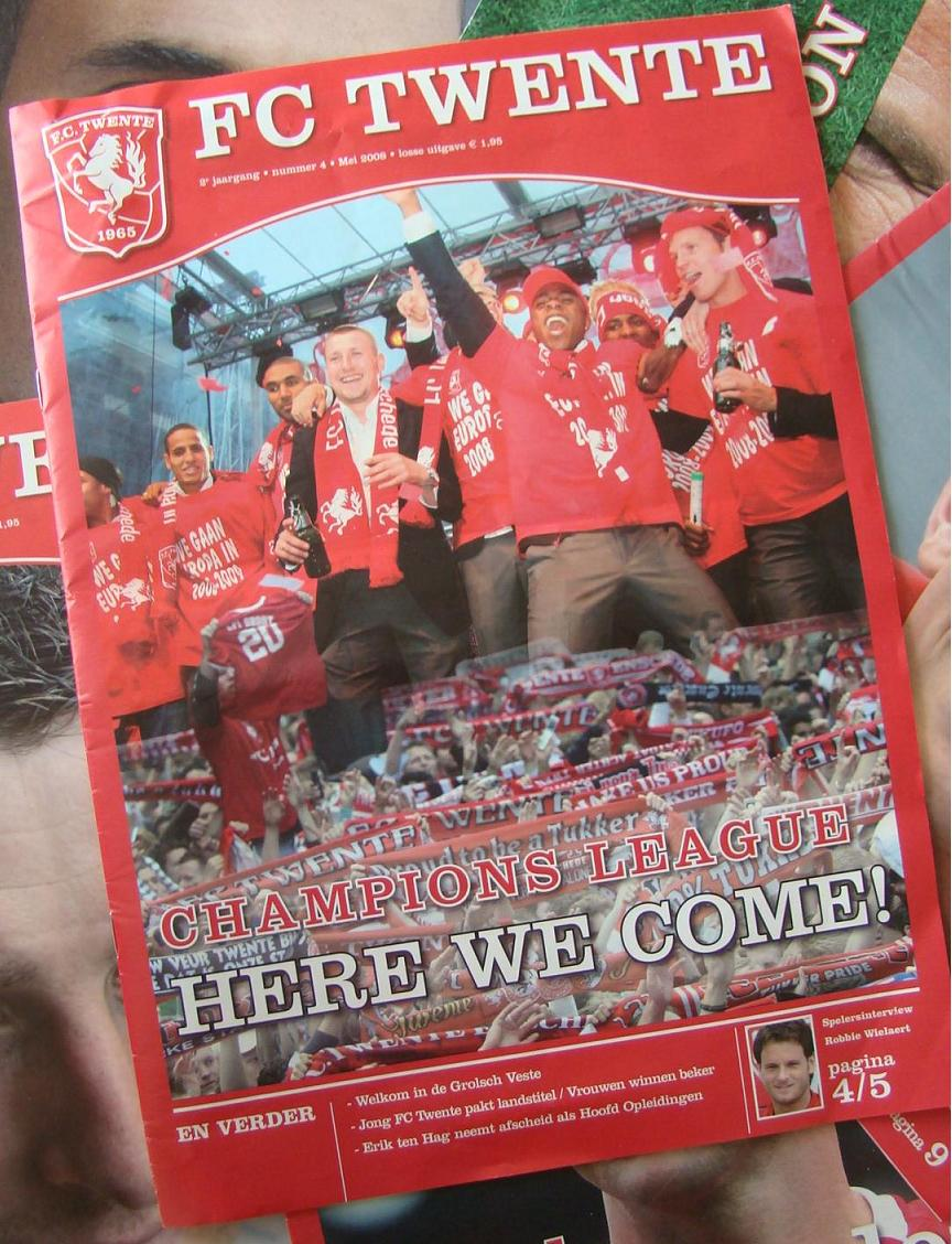 Image of the magazine FC Twente Inside